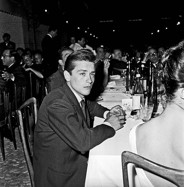 French actor Alain Delon getting bored at the dinner held for the Cinema Gala at the restaurant Vecchia America di Corsetti. Rome, 1961.